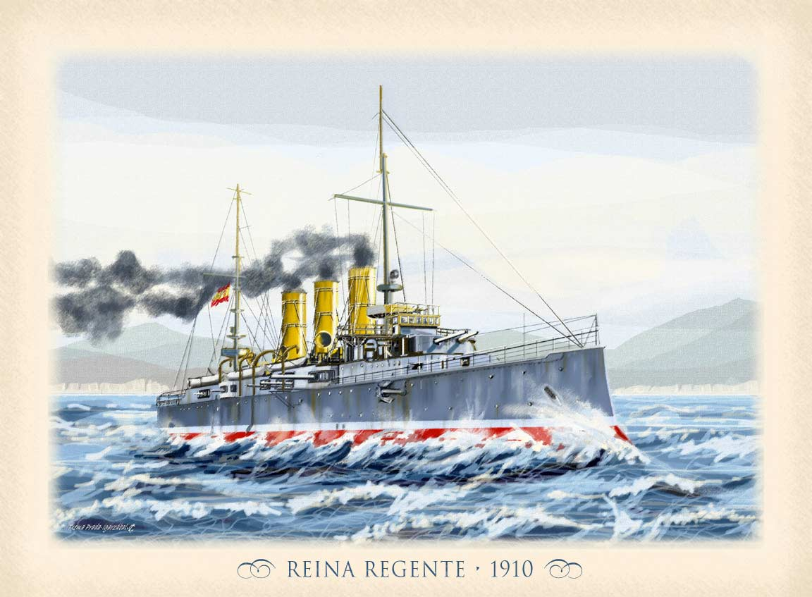 Reina Regente Cruiser